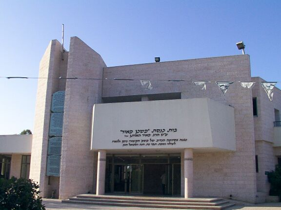 Kedumim_Synagogues_Miscan_Mehir